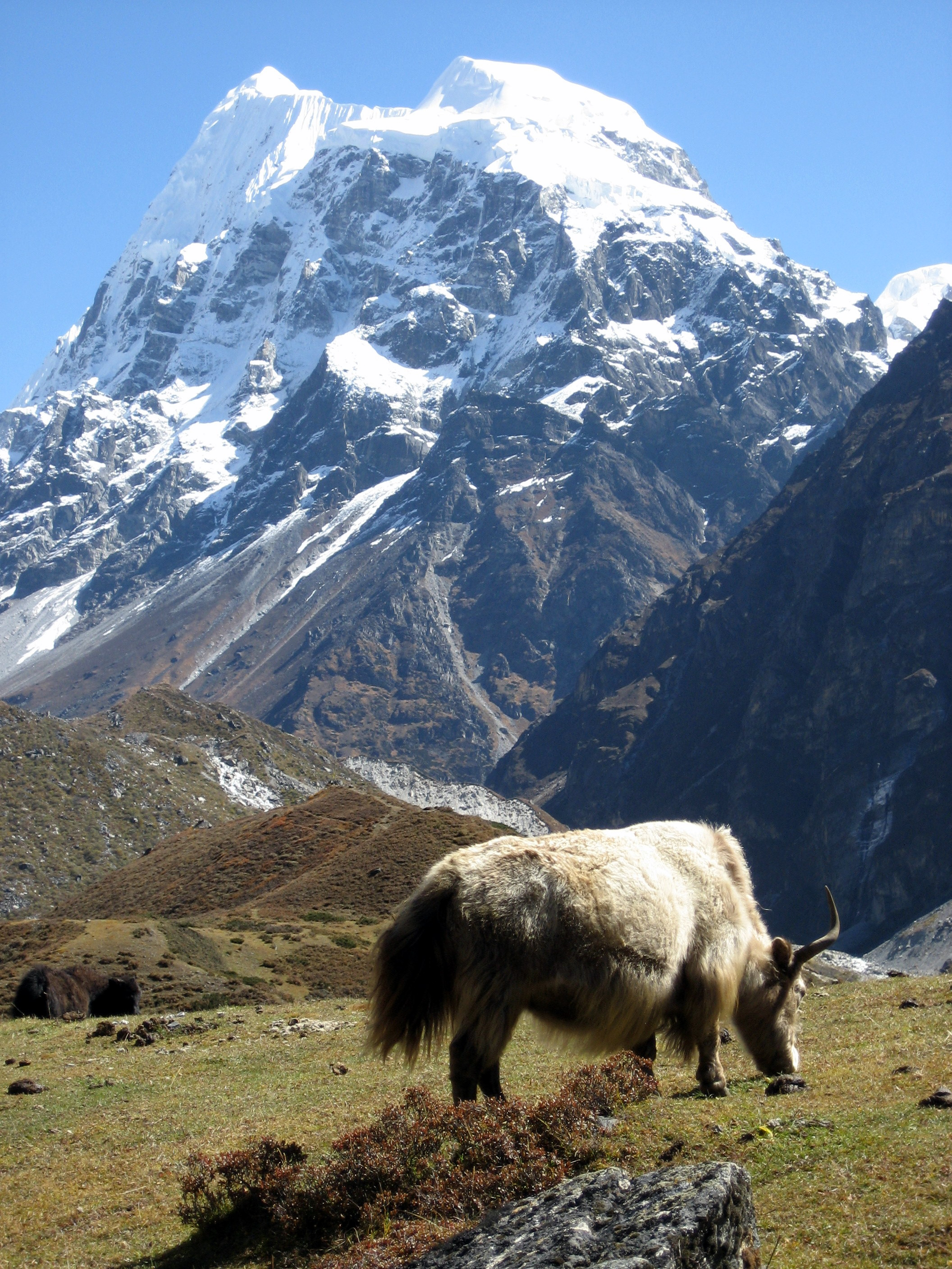 Photo taken in Langtang Trek, Nepal